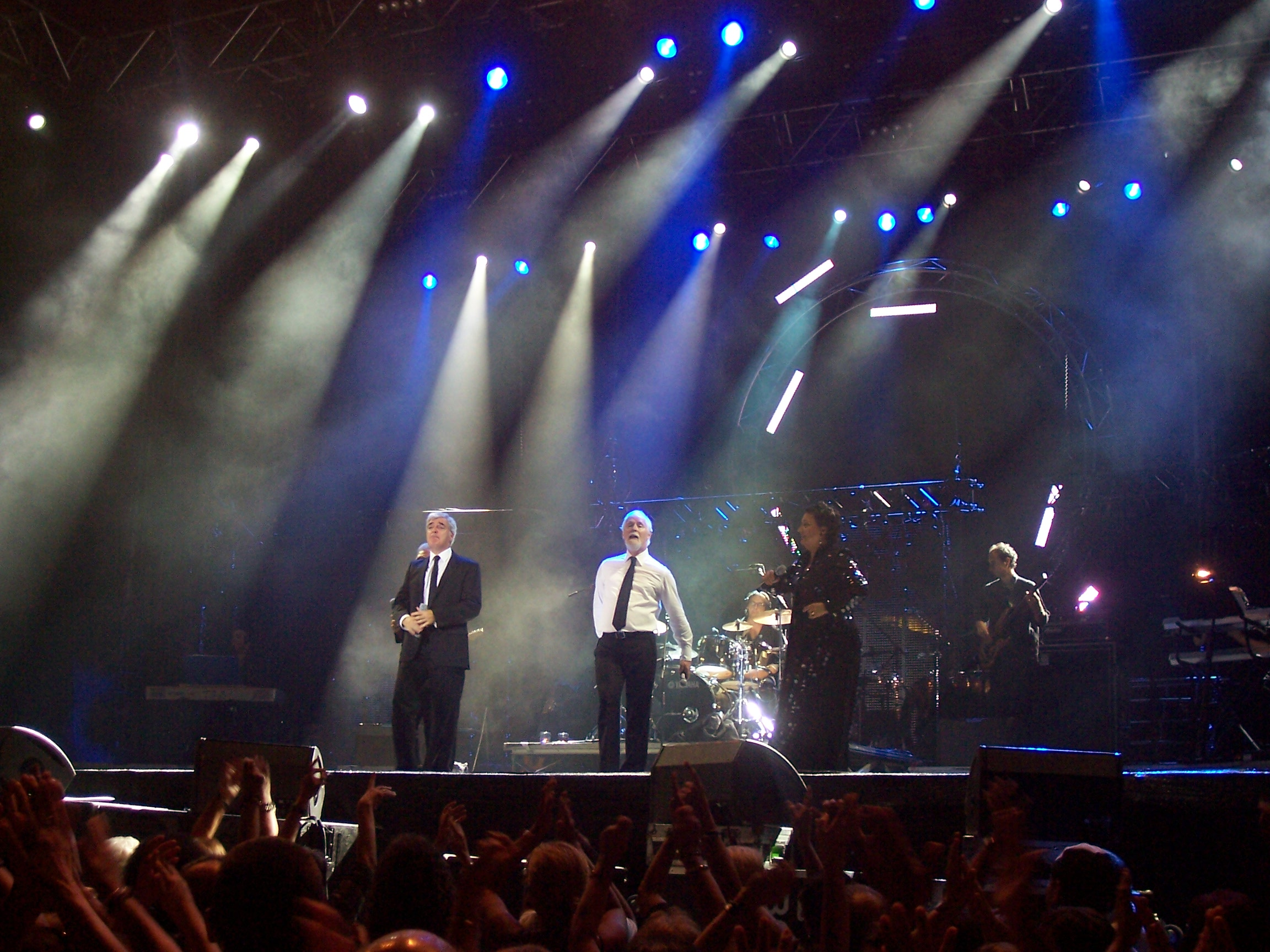 El Consorcio, a Spanish musical group during a concert in the Noroeste Pop Rock in August 14th 2009 in Praia de Riazor (La Coruña, Spain). From left to right, Iñaki Uranga, Sergio Blanco and Estíbaliz Uranga.